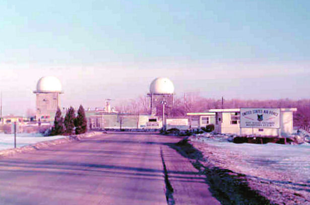 655th Radar Squadron, main entrance gate and guardshack.